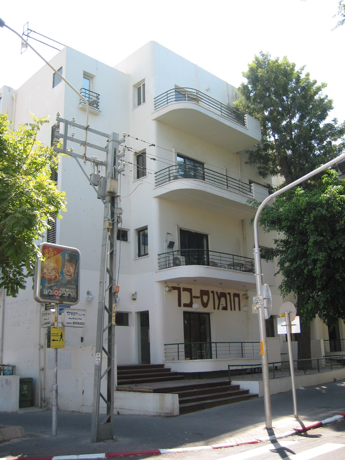 International Style house 142 Rothschild Boulevard, Tel Aviv under preservation as part of the White City of Tel Aviv